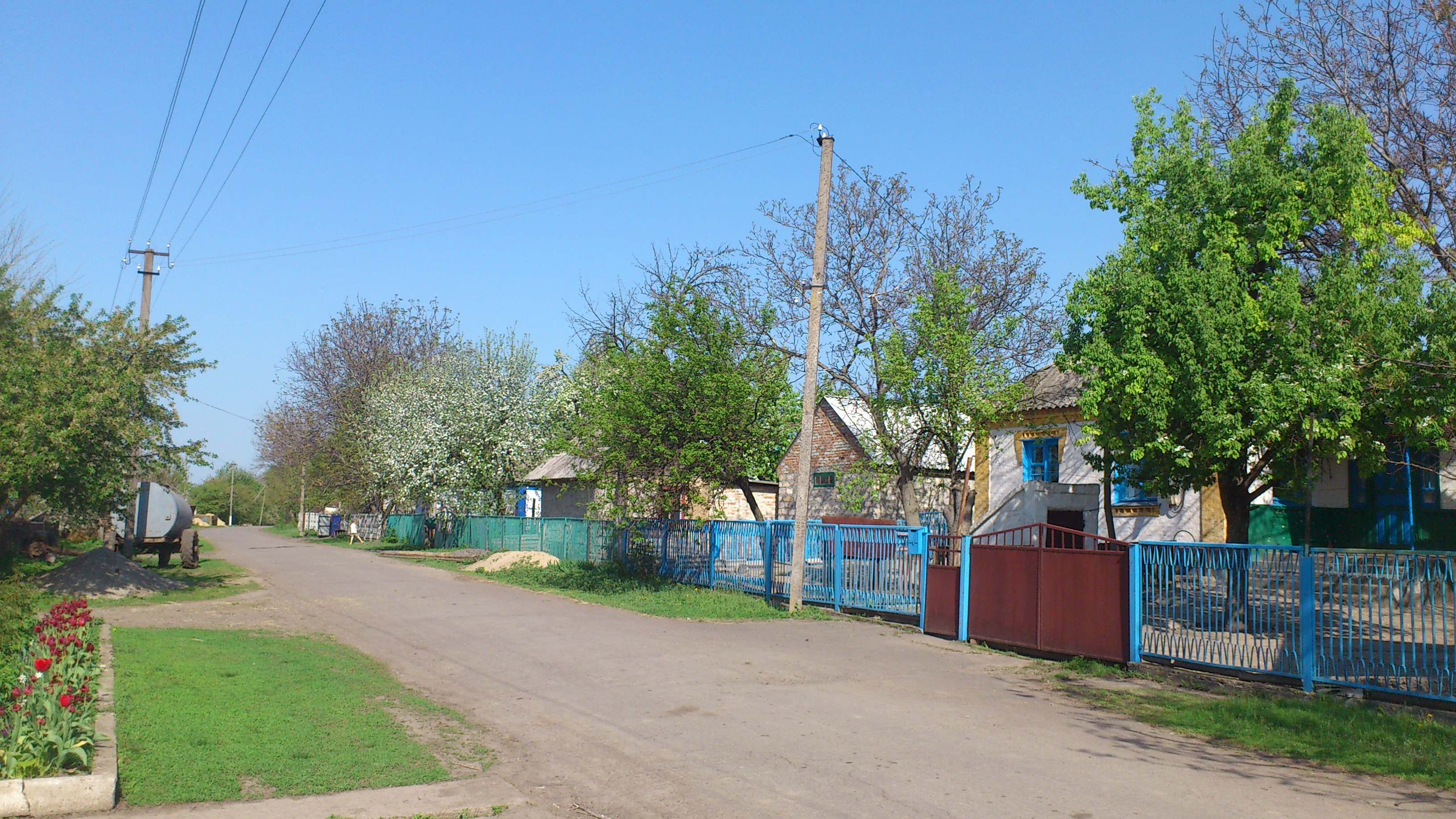 Торговиця, вулиця Котовського